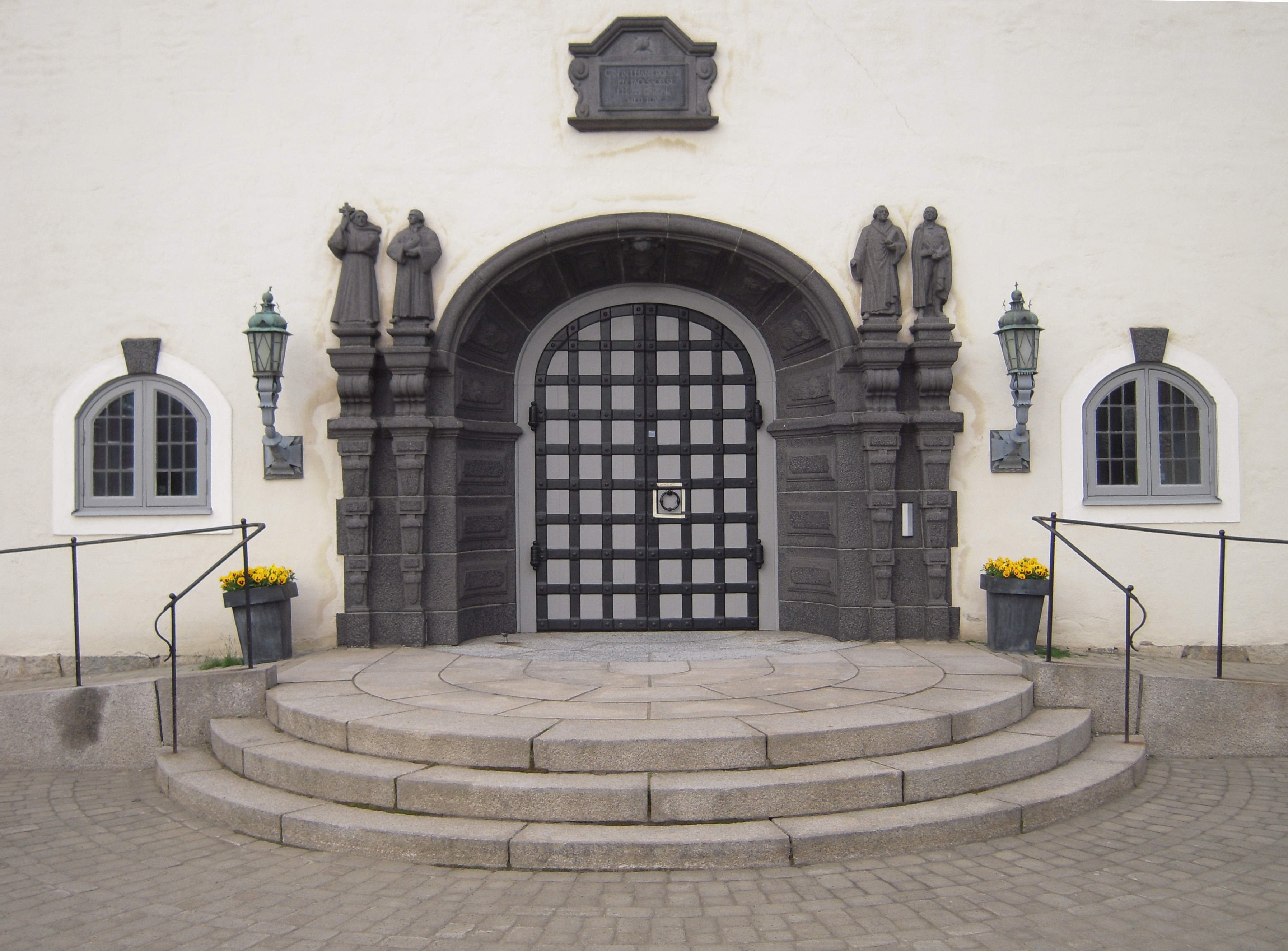 St. Olov's Church, Skellefteå, front entrance. On the door there are tape with writing that says "Nymålat" meaning "Wet paint". The sculptures at the western portal can be regarded as individual works of art. These represent Ansgar, Martin Luther, Olaus Petri and Johan Olov Wallin and are cared for gypsum models by the artist and sculptor Carl Fagerberg (1878-1948), Stockholm.